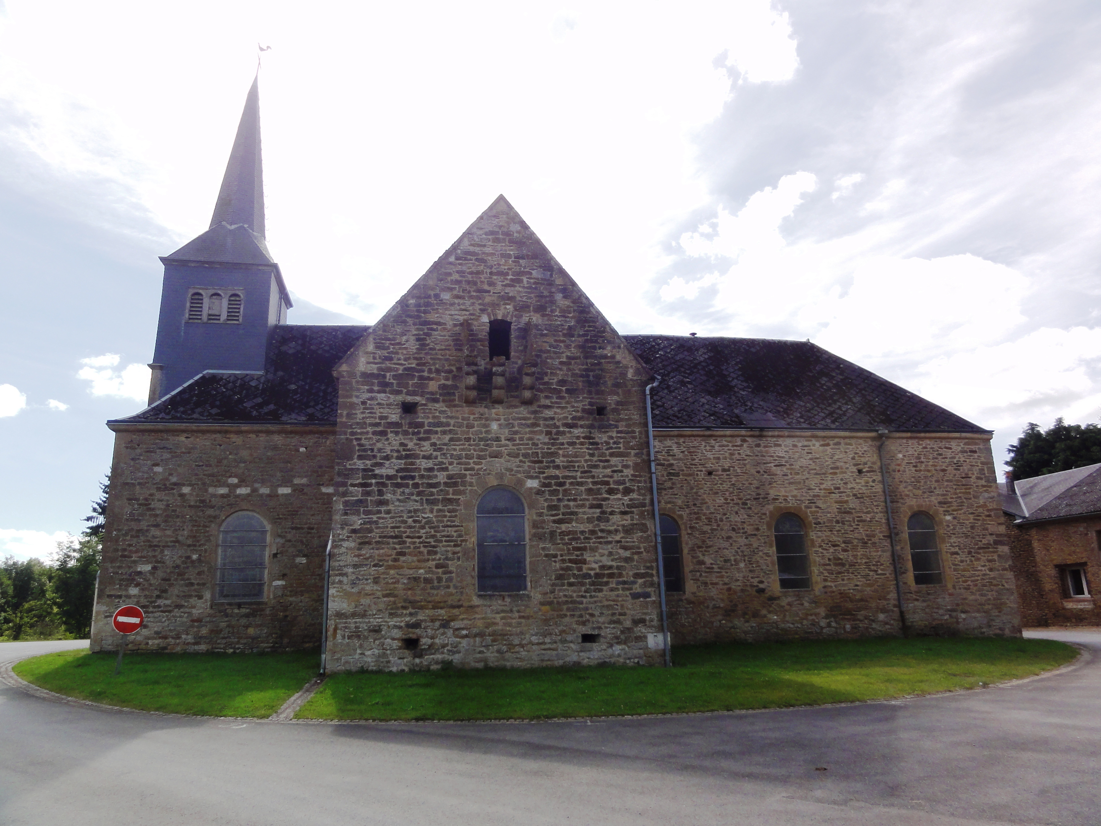 Église Saint-Étienne de Laval-Morency